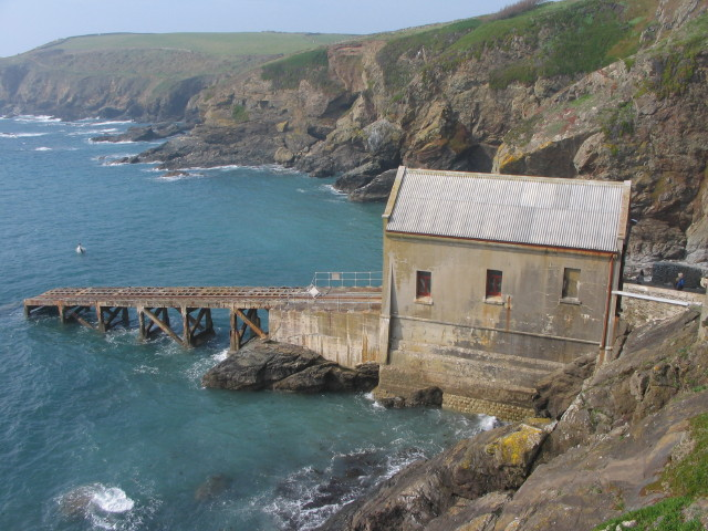 The lifeboat station at Polpeor Cove, The Lizard, Cornwall. This was the third lifeboat station at the Lizard. It opened in1914 and closed in 1961.